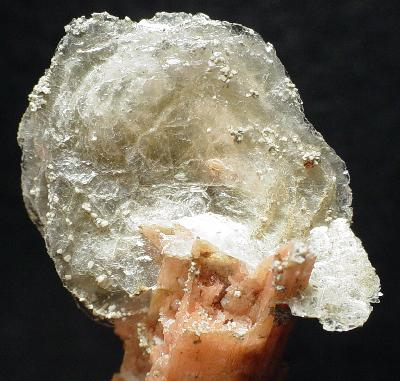 Polylithionite, Serandite Locality: Mt. St. Hilaire, Quebec, Canada Size: small cabinet, 6.5 x 3.5 x 3.5 cm Polylithionite on Serandite As my first choice of the lot of several dozen specimens that were brought out at the show, this is special because of the single nice rosette of polylithionite blades perched so delicately at the top of a long stalk of serandite. Few large serandites were in this lot, and of them this was the best poly associated piece. The rosette atop measures a full 3 cm and is somewhat more appealing visually in person. BETTER IN PERSON! 6.5 x 3.5 x 3.5 cm